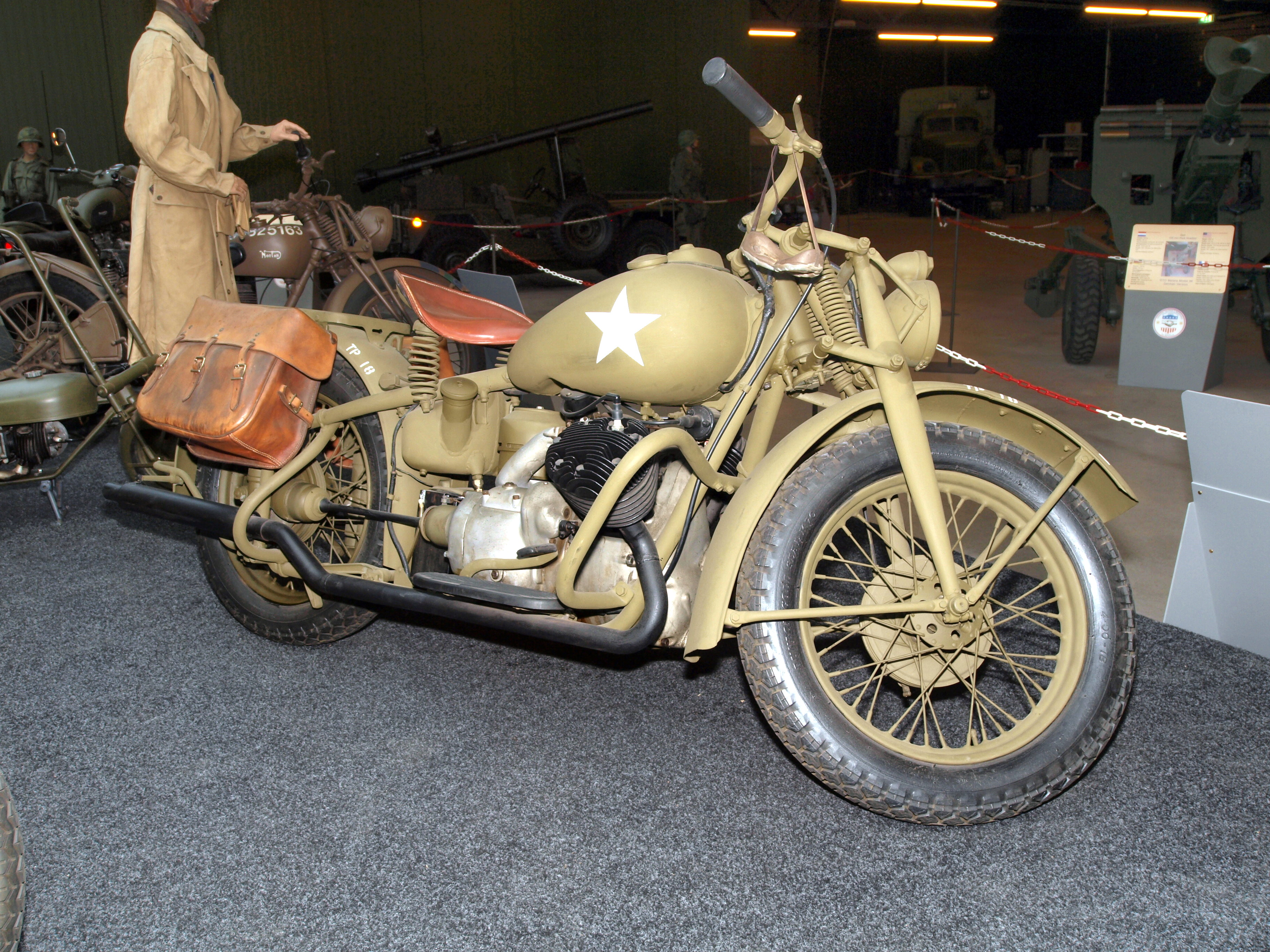 Photographed at the Marshallmuseum - Liberty Park - Oorlogsmuseum Overloon, The Netherlands. OLYMPUS DIGITAL CAMERA